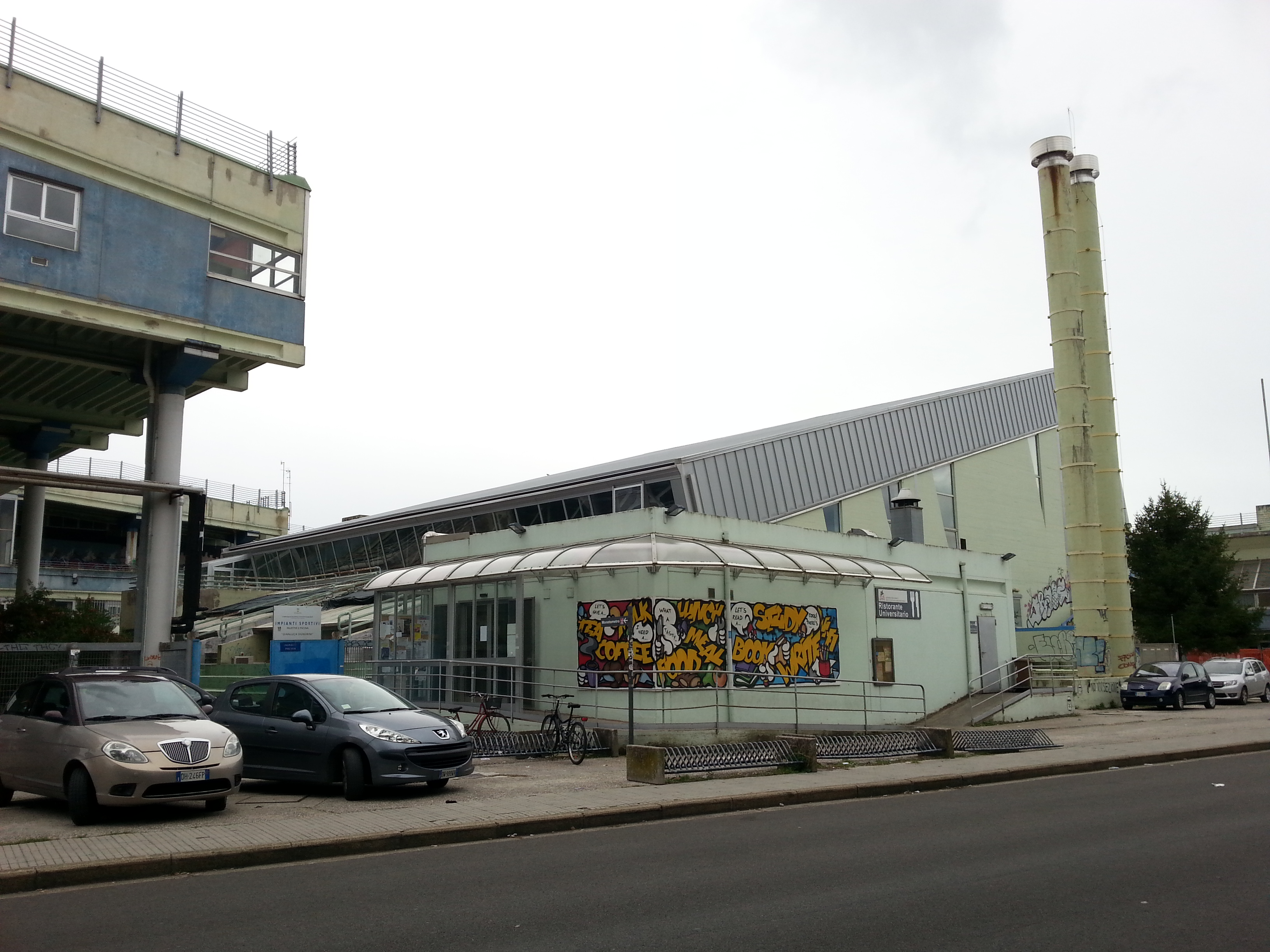 Marchesi complex, school building in Pisa, Italy